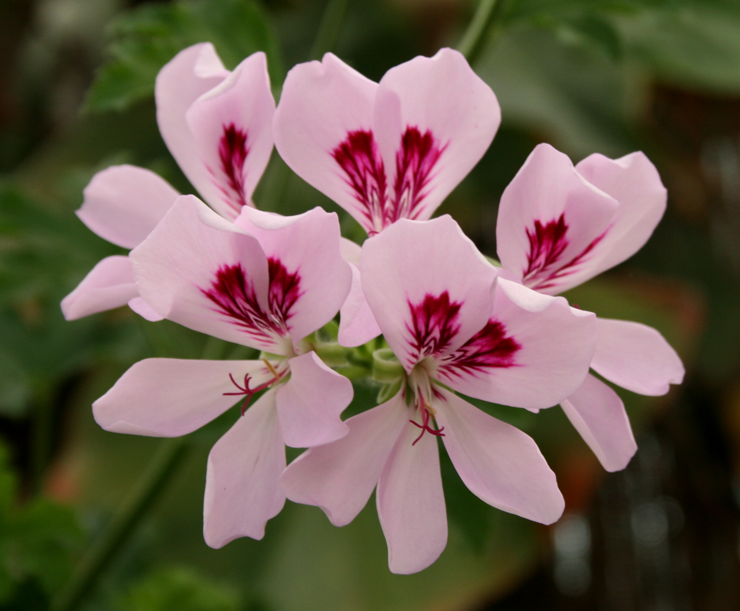 Pelargonium graveolens